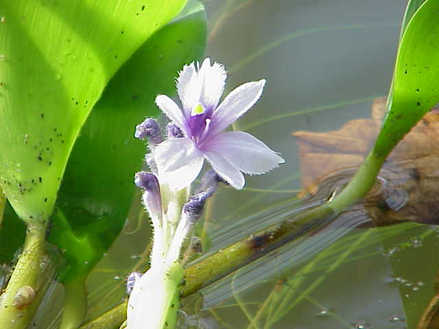 Species: Eichhornia azurea Family: Pontederiaceae Image No. 2